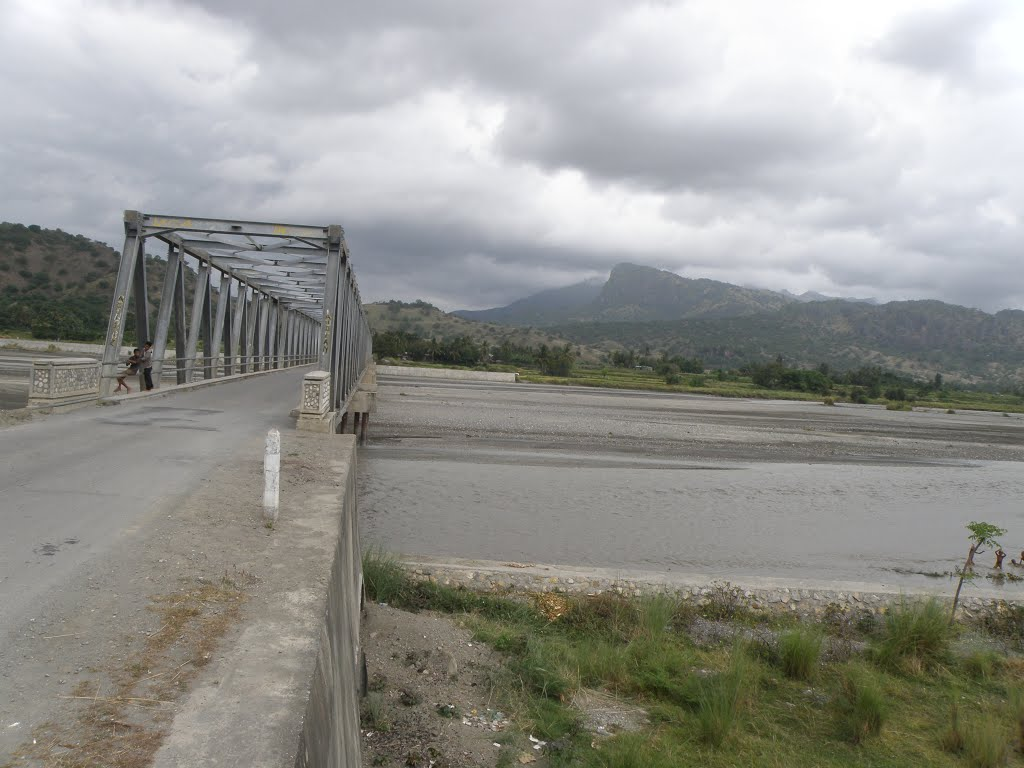 Bridge over Laclo River at Manatuto, Mt Curi in background